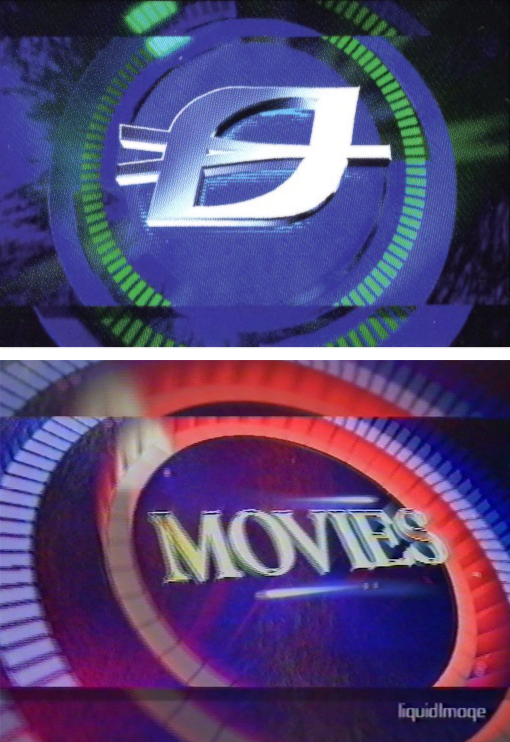 Still frames of logo and movie channel idents by Liquid Image for Border TV